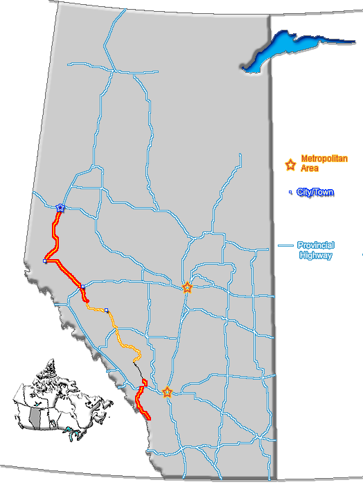 Map of Alberta Highway 43